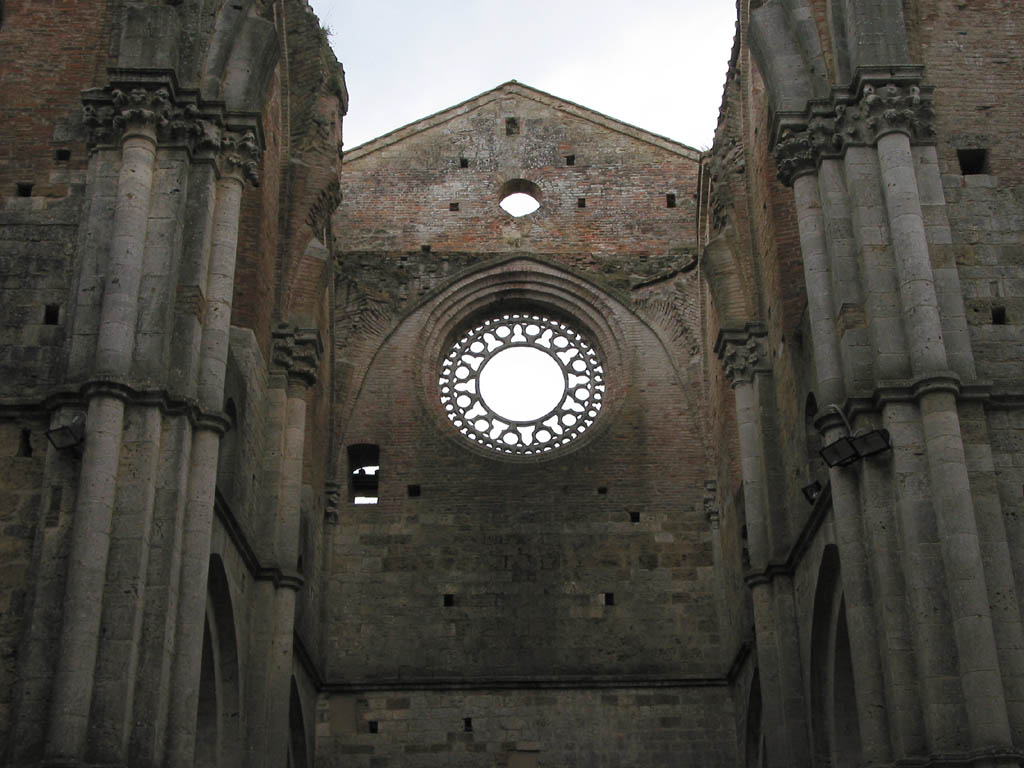 The ruins of San Galgano Abbey (Siena, Italy).